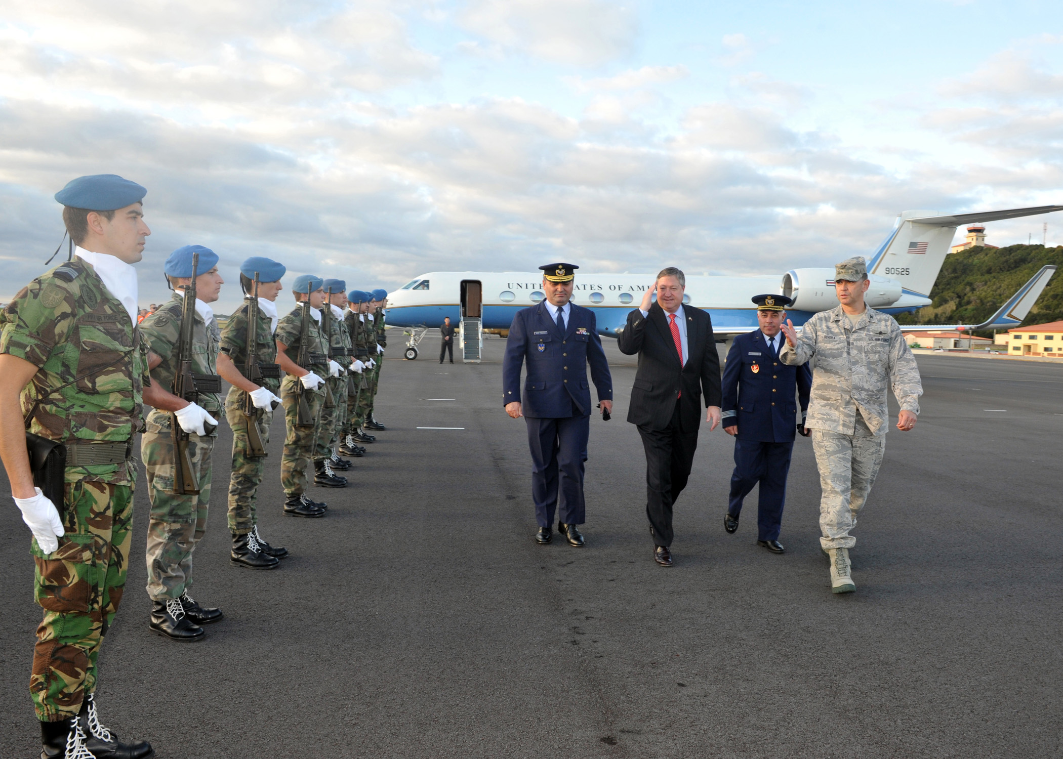 Secretary of the Air Force Michael Donley salutes the Portuguese air force honor guard upon his arrival to Lajes Field, accompanied by Maj. Gen. Victor Franciso, Headquarters Azores Air Zone commander, Col. Sergio Ferreira, Air Base No. 4 commander, and Col. Jose Rivera, 65th Air Base Wing commander, Dec. 18, 2011. The Secretary toured several units of the 65th Air Base Wing and spoke with Airmen in all functions and dimensions of the mission at Lajes Field. (U.S. Air Force photo/Guido Melo)